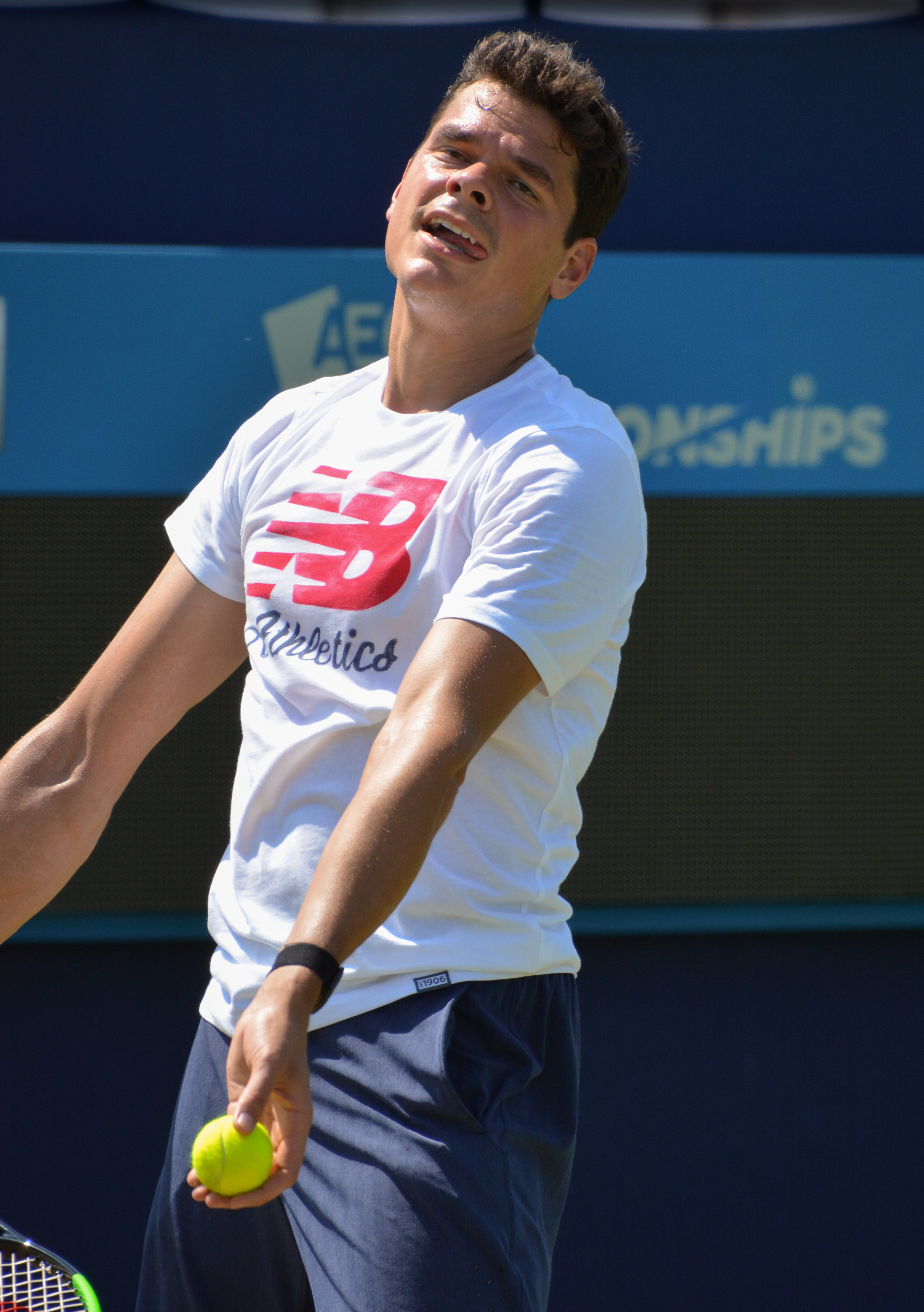 On the practice court. Aegon Championships 2017.